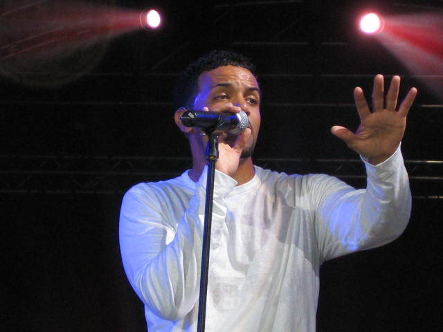 Craig David at the Somerset House in London.craig david